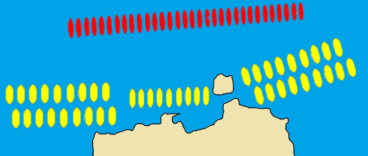 Battle of Arginusae